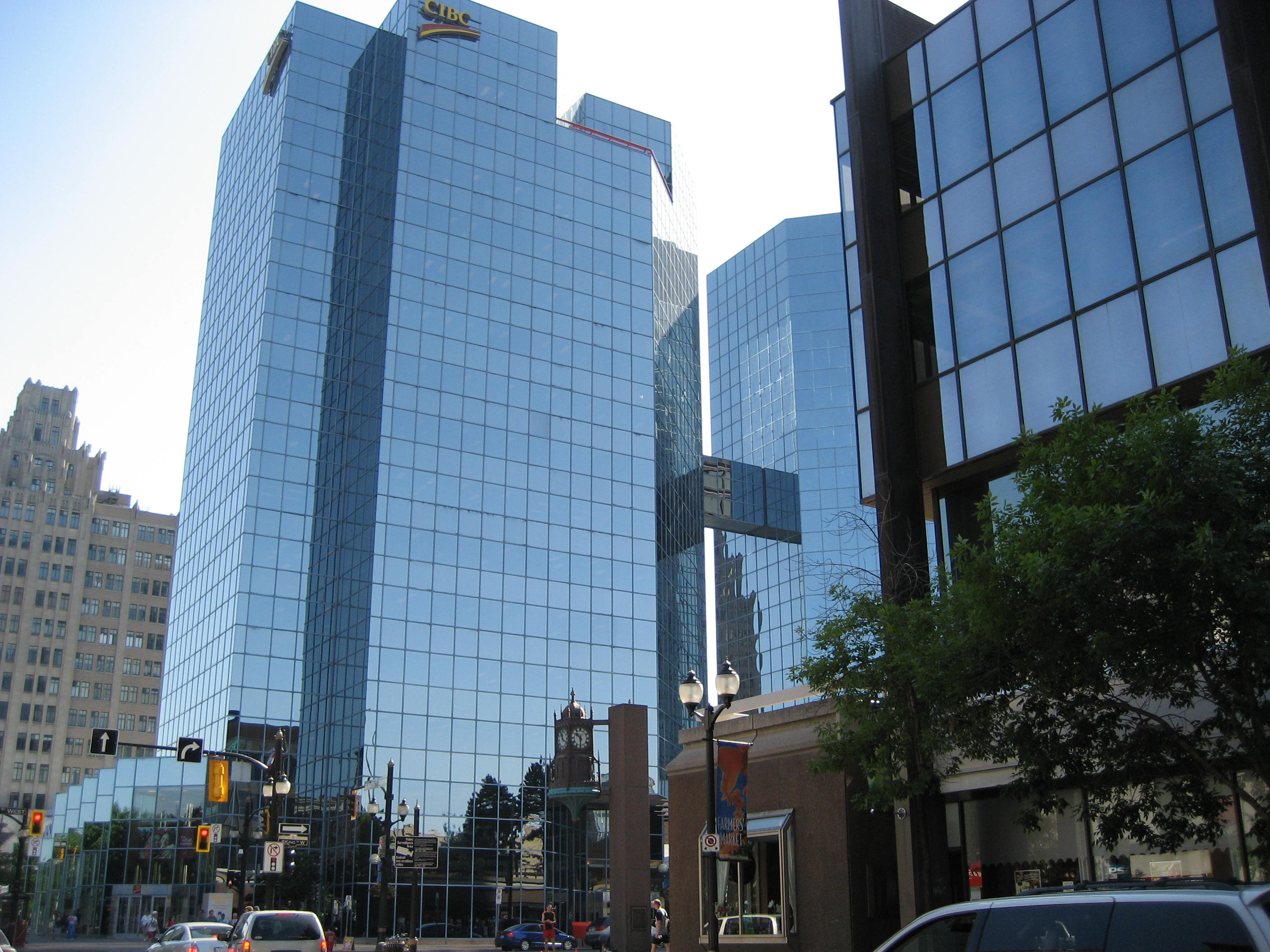 Lloyd D. Jackson Square (Mall) and Commerce Place I, downtown Hamilton, Ontario